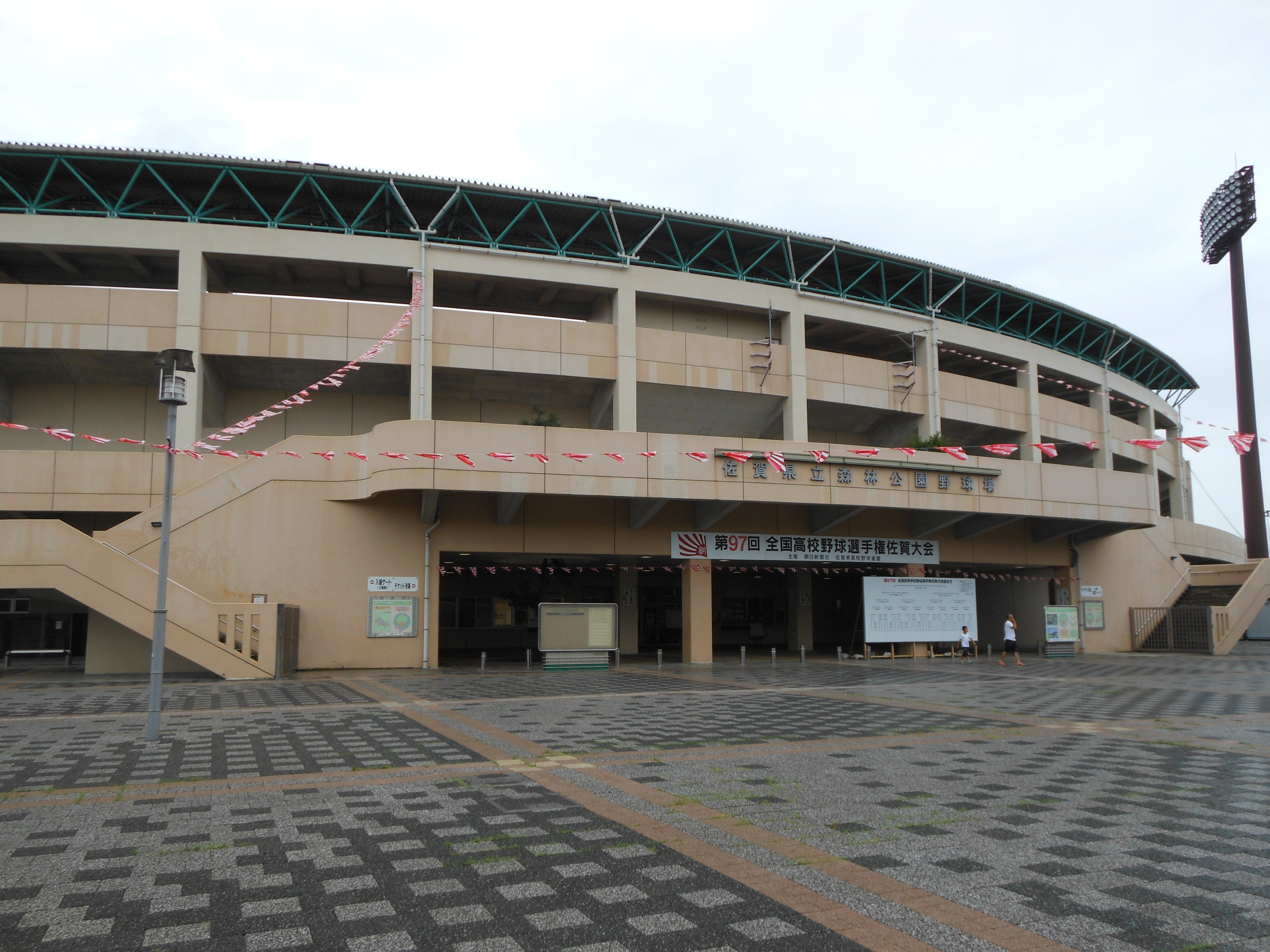 Front of Saga Midori no Mori Baseball Stadium, Saga city, Saga prefecture, Japan.